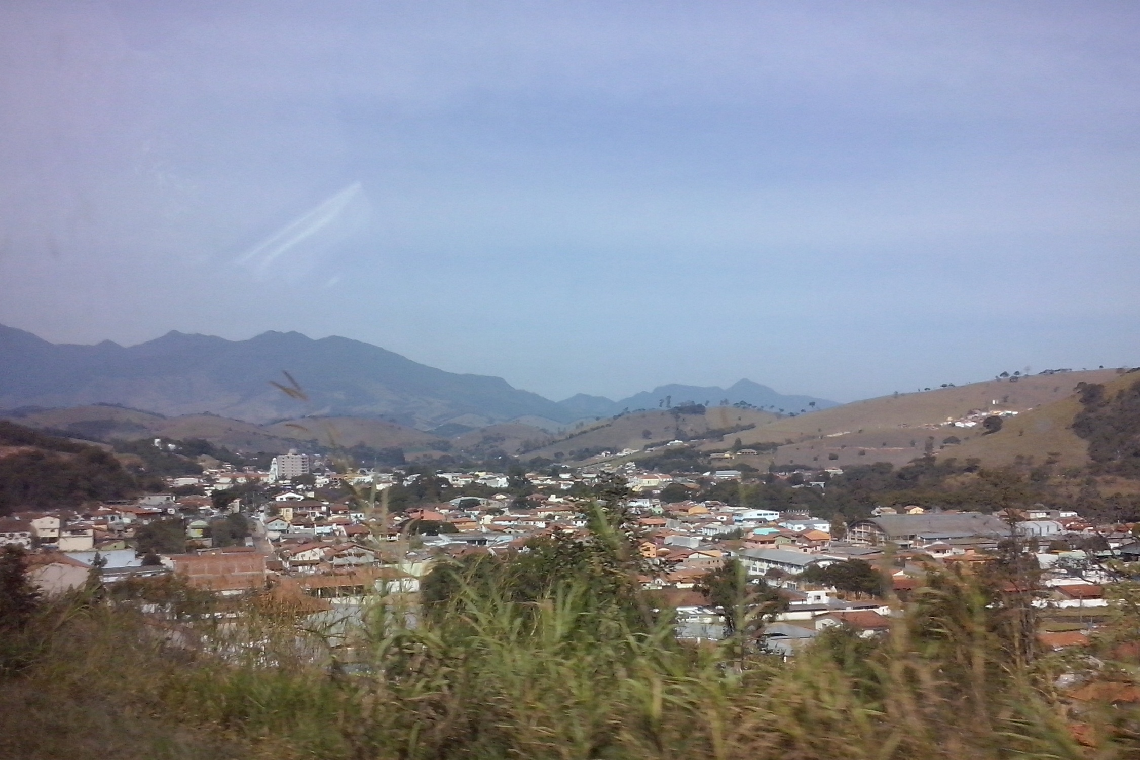 Partial view of Itanhandu, Minas Gerais, Brazil.